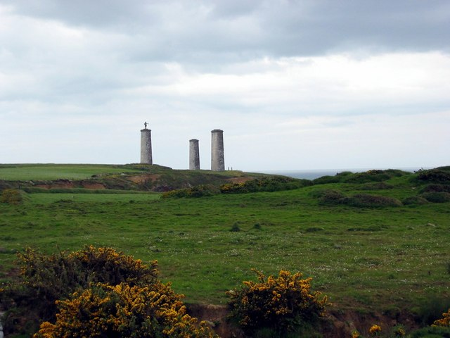 The Metal Man The Metal Man at Newtown Head overlooking Tramore Bay